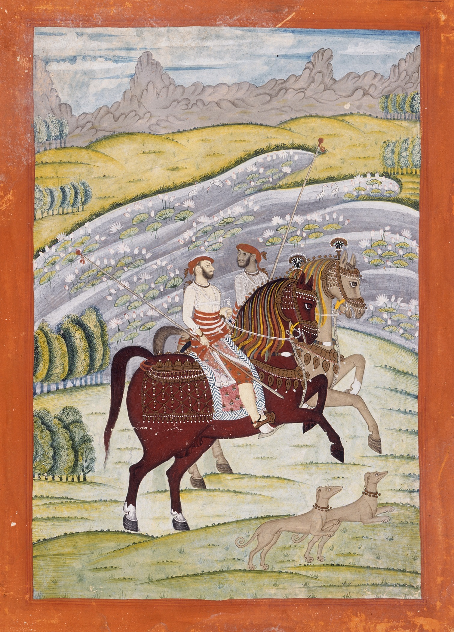 India, Madhya Pradesh, Datia, circa 1780 Drawings; watercolors Opaque watercolor and gold on paper From the Nasli and Alice Heeramaneck Collection, Museum Associates Purchase (M.71.1.17) South and Southeast Asian Art